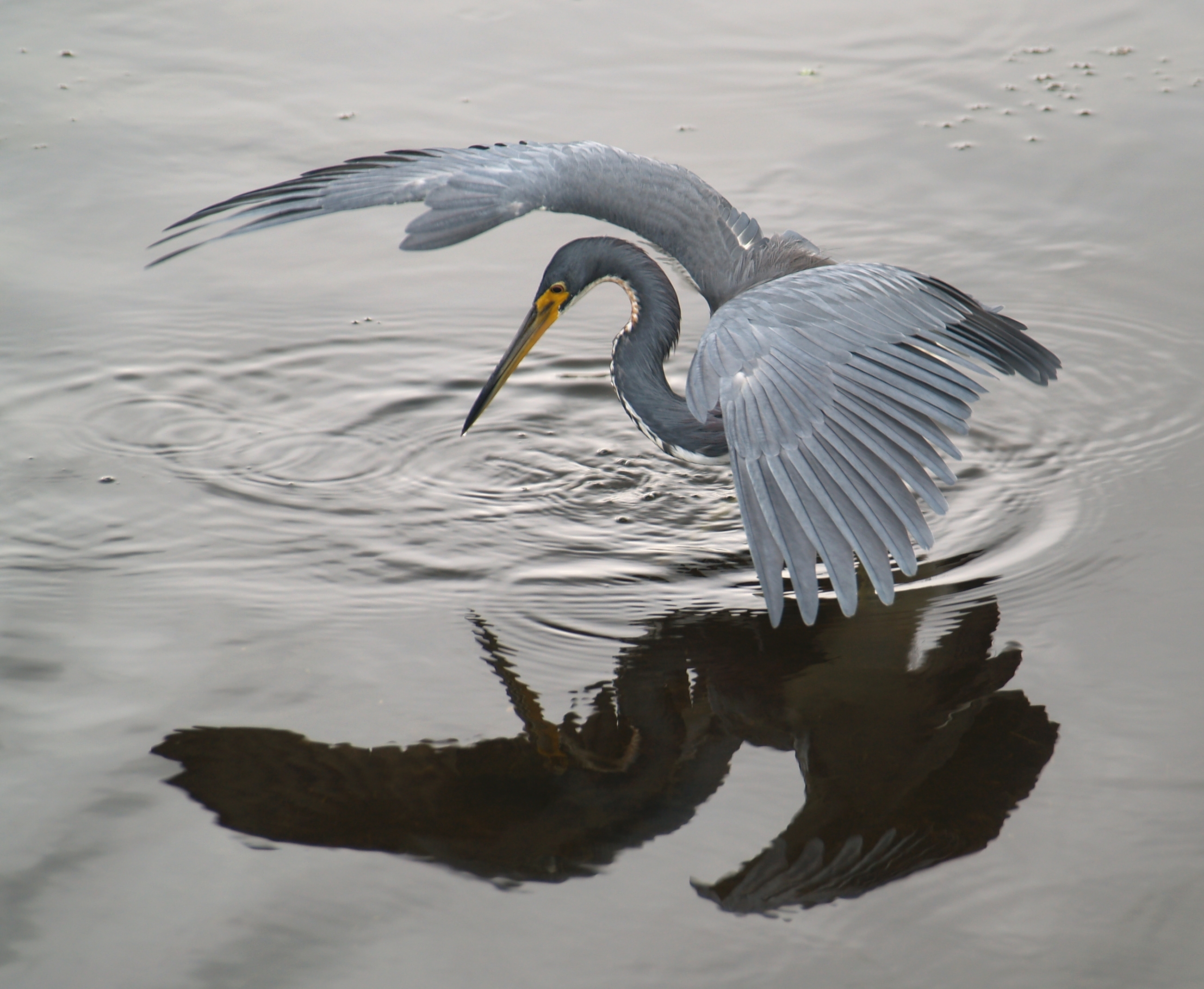 Tricolored heron (Egretta tricolor) fishing. Green Cay Wetlands, Boynton Beach, Florida. Sunda: Kuntul triwarna (Egretta tricolor) keur ngala lauk di Green Cay Wetlands, Boynton Beach, Florida.